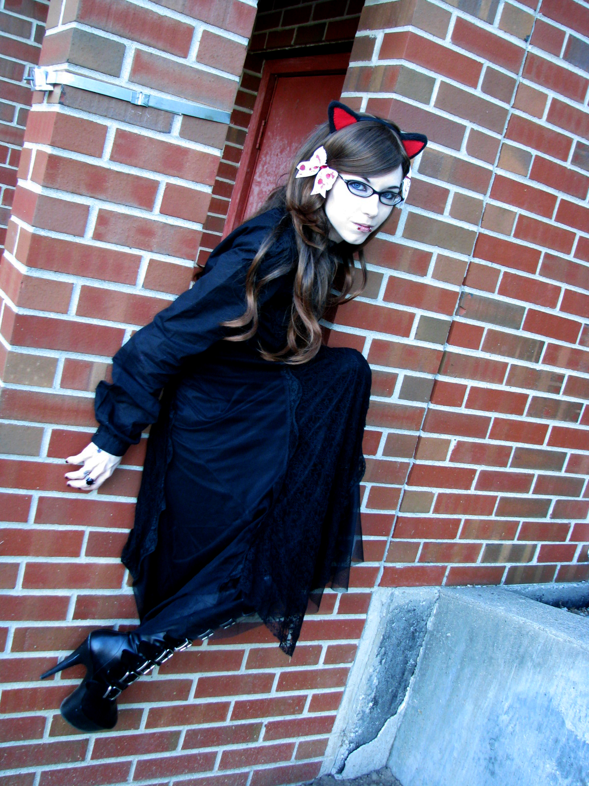 Model V7Stick is a catgirl, here she is in an archway. Her modeling nickname is Vanilla7 Stick and her photography name is Shooting Stick.